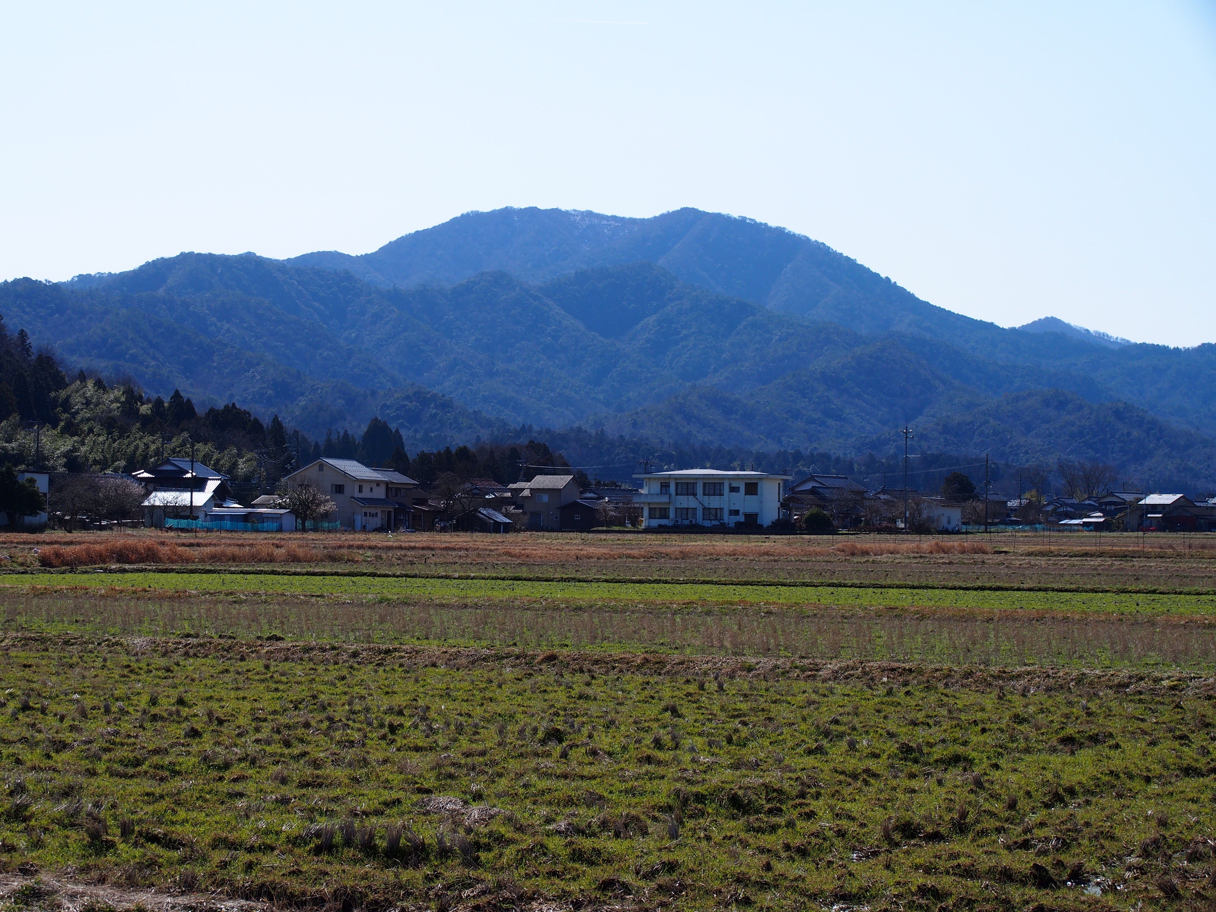 Mount Isanago (Isanagosan) seen from the north.